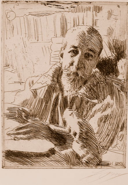 Portrait of Anatole France (1844-1924)